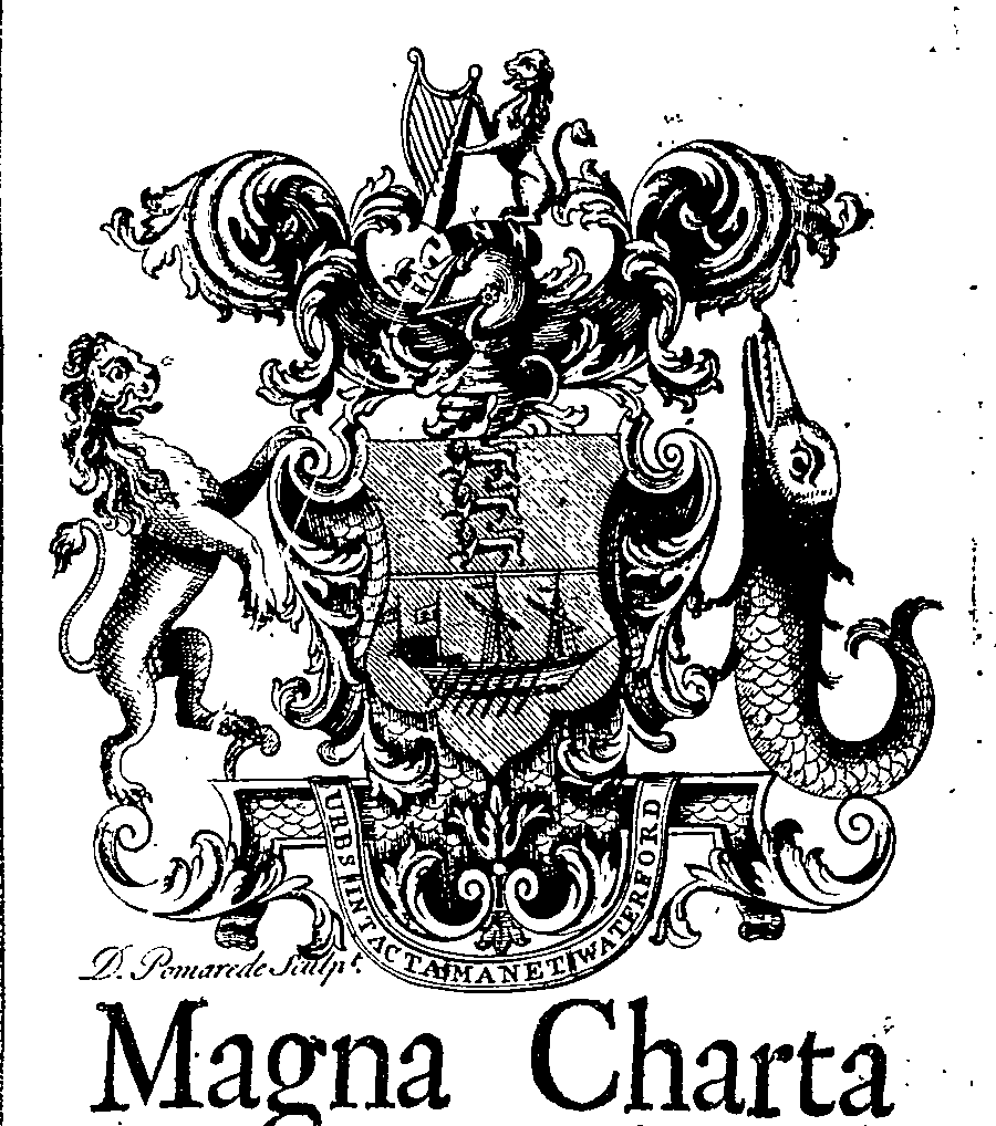 Fleuron from book: Magna charta libertatum civitatis Waterford. Timotheo Cunningham editore.